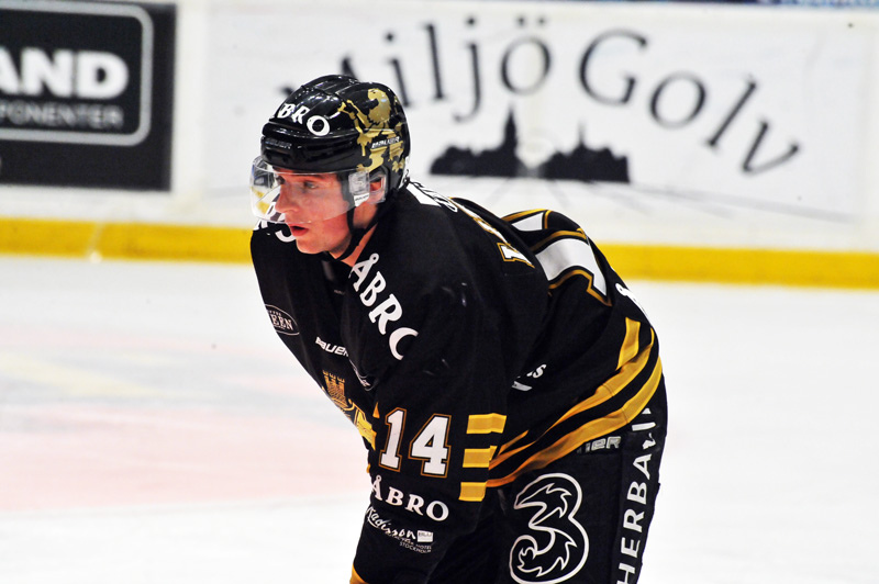 Broc Little in a game with AIK Ishockey.